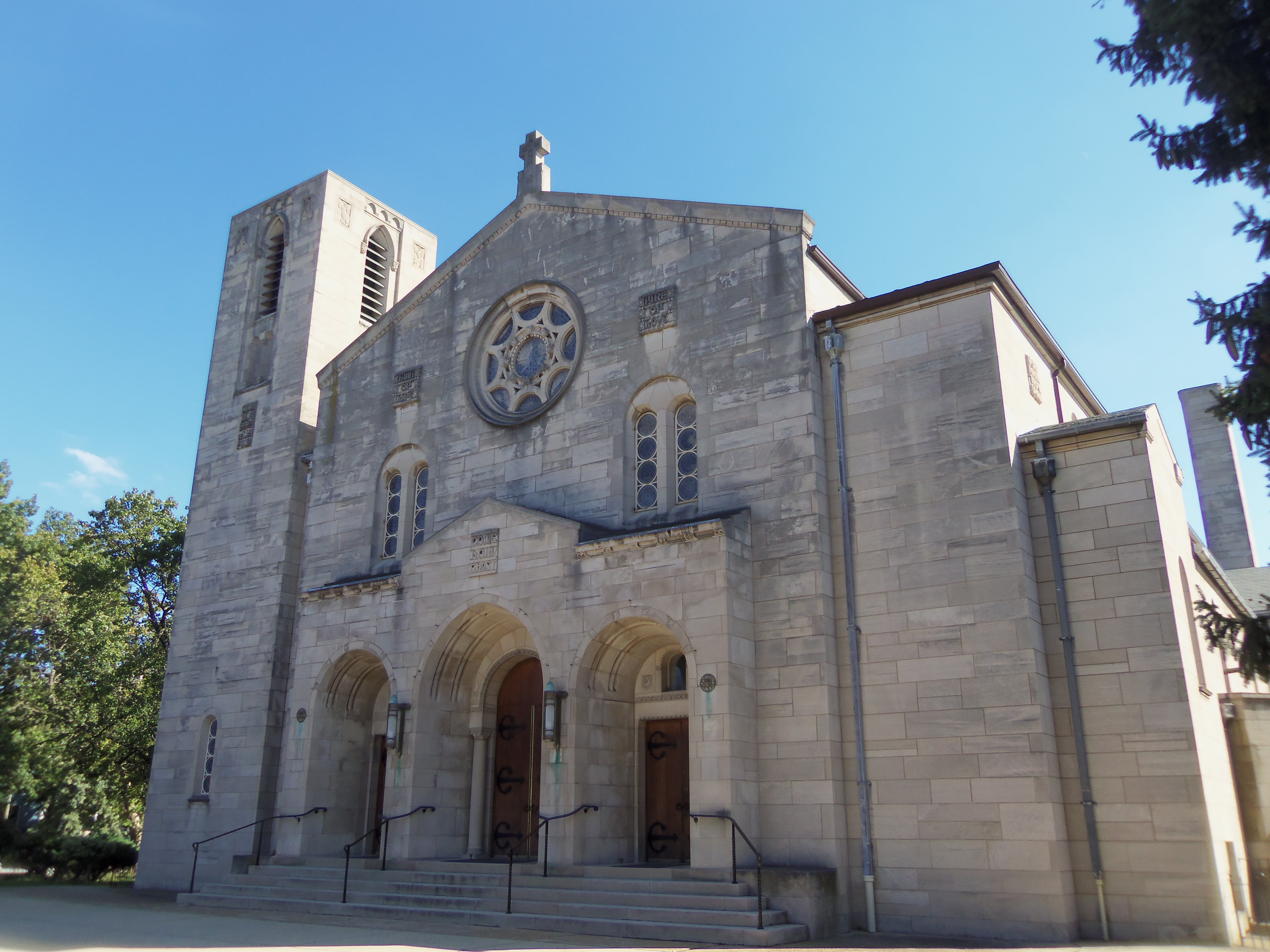 Holy Comforter-Saint Cyprian Catholic Church on East Capitol Street in Washington, DC.